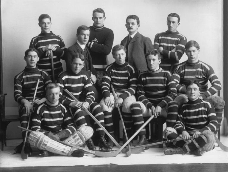 Photograph, McGill Hockey Team, Montreal, QC, 1904, Wm. Notman & Son, Silver salts on glass - Gelatin dry plate process - 20 x 25 cm